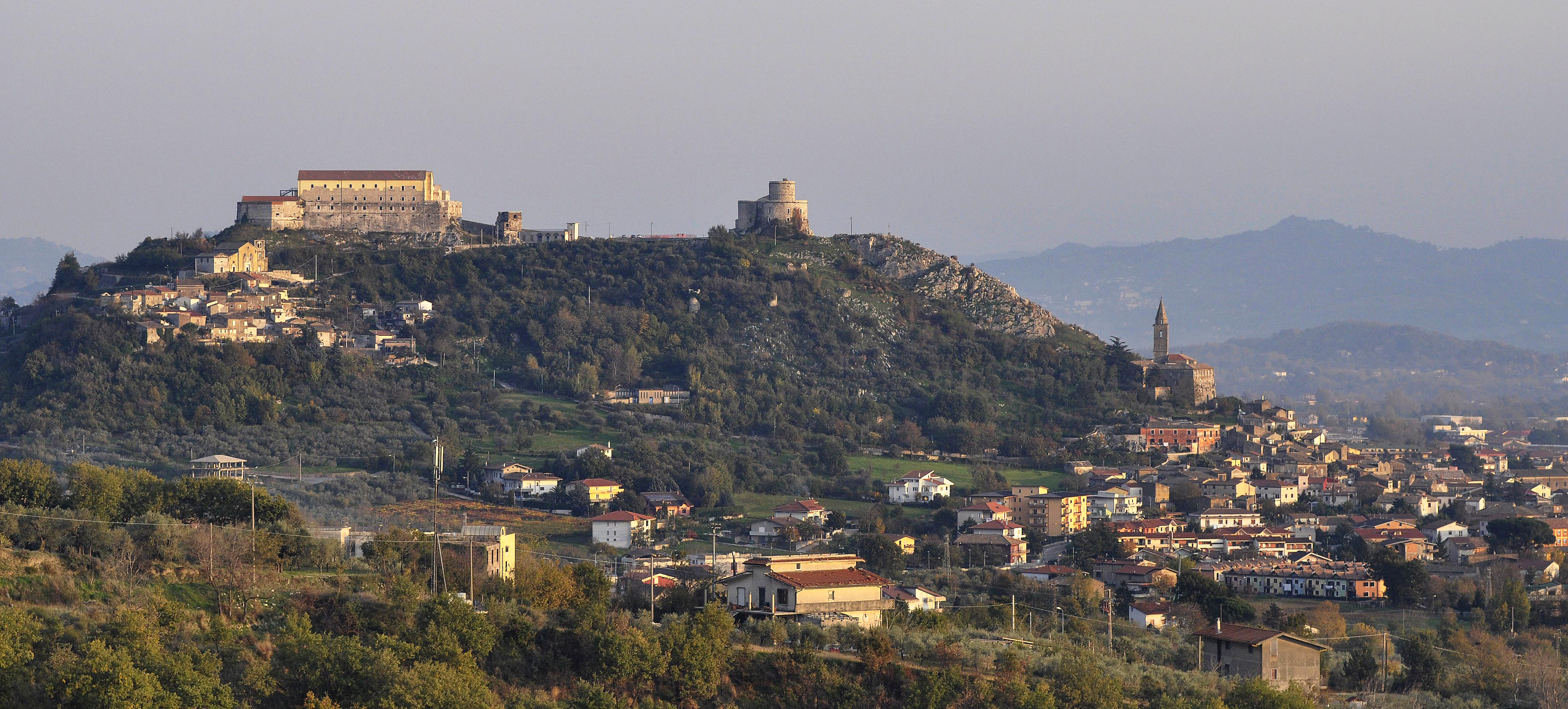 A view of Montesarchio, a comune in the province of Benevento.